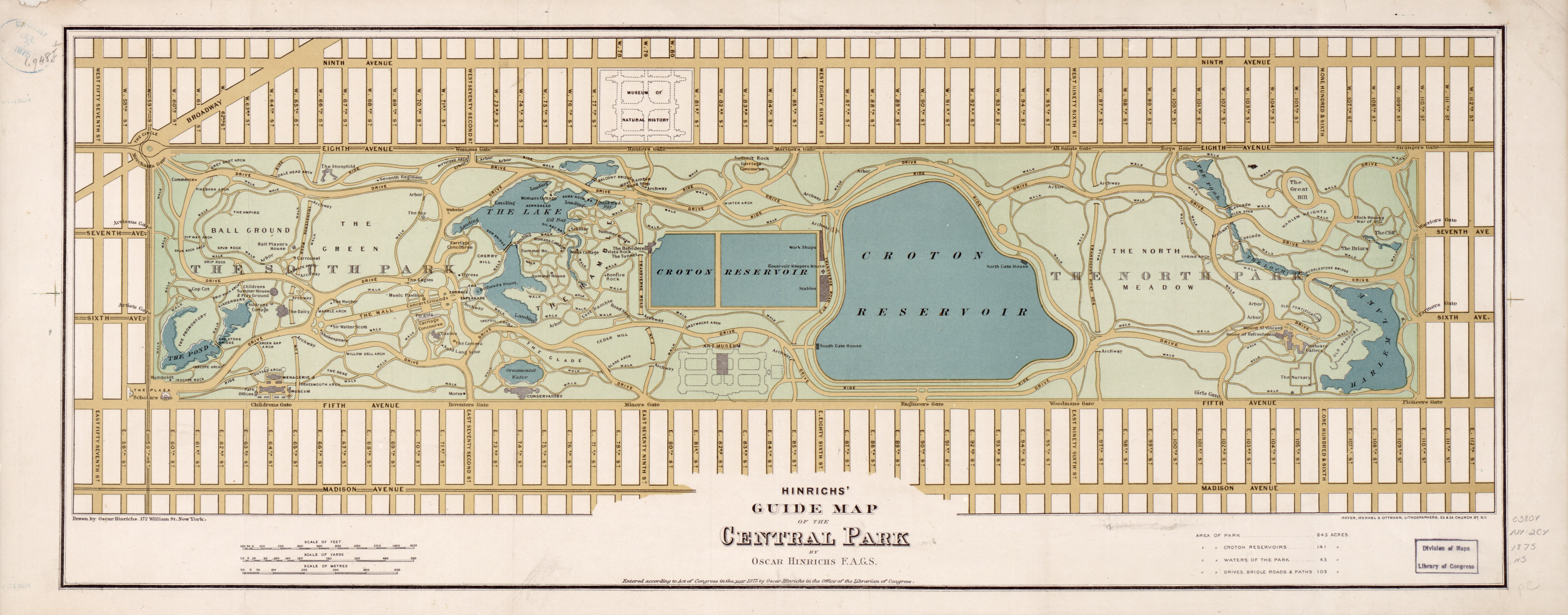 Heinrich's 1875 Guide Map of the Central Park-1042x409px showing the two reservoirs in Central Park to be used in the Jacqueline Kennedy Onassis Reservoir wikipedia article and possibly the Great Lawn and Turtle Pond article.